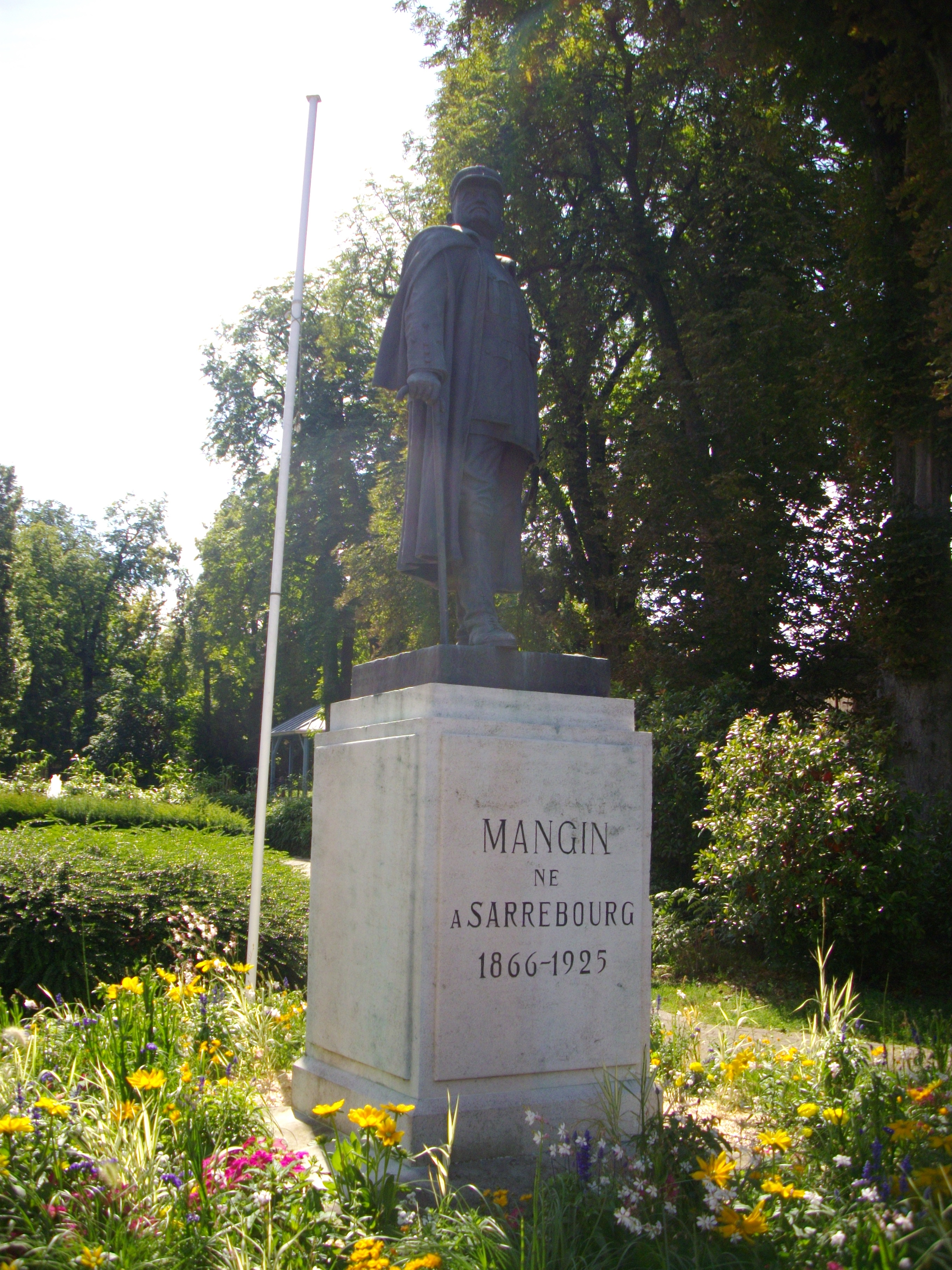 Statue of general Charles Mangin in Sarrebourg (Moselle, France), by the sculptor Charles Gern, 1933.